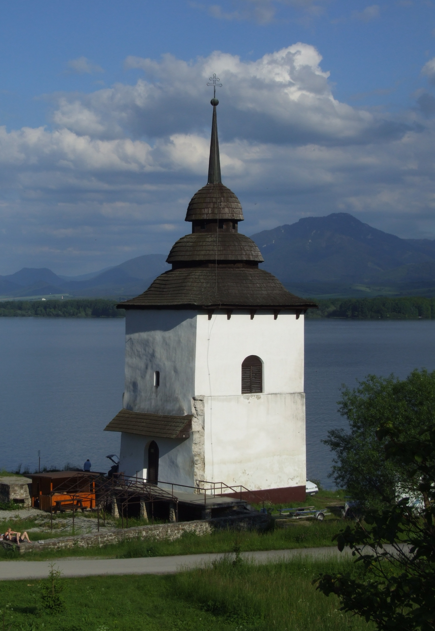 Liptovská Mara - church tower